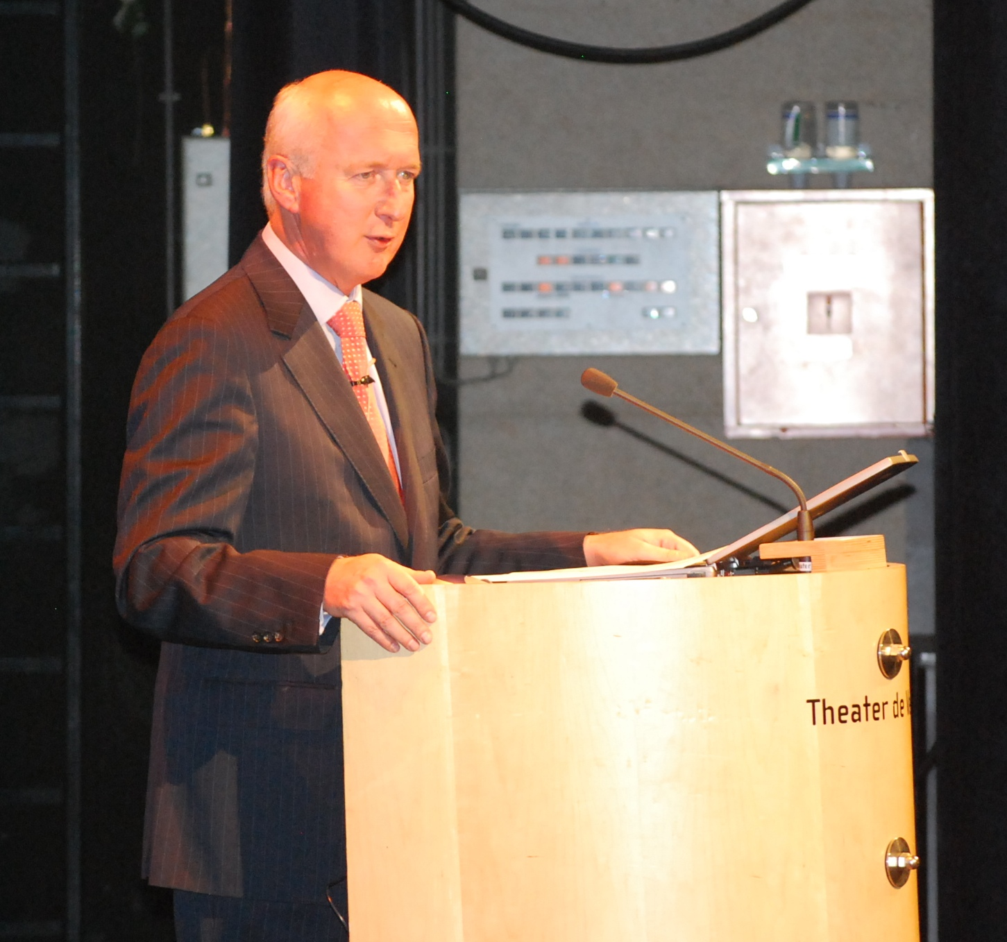 Guido van Woerkom, okt 2009. Afscheid B.Immers, De Veste, Delft